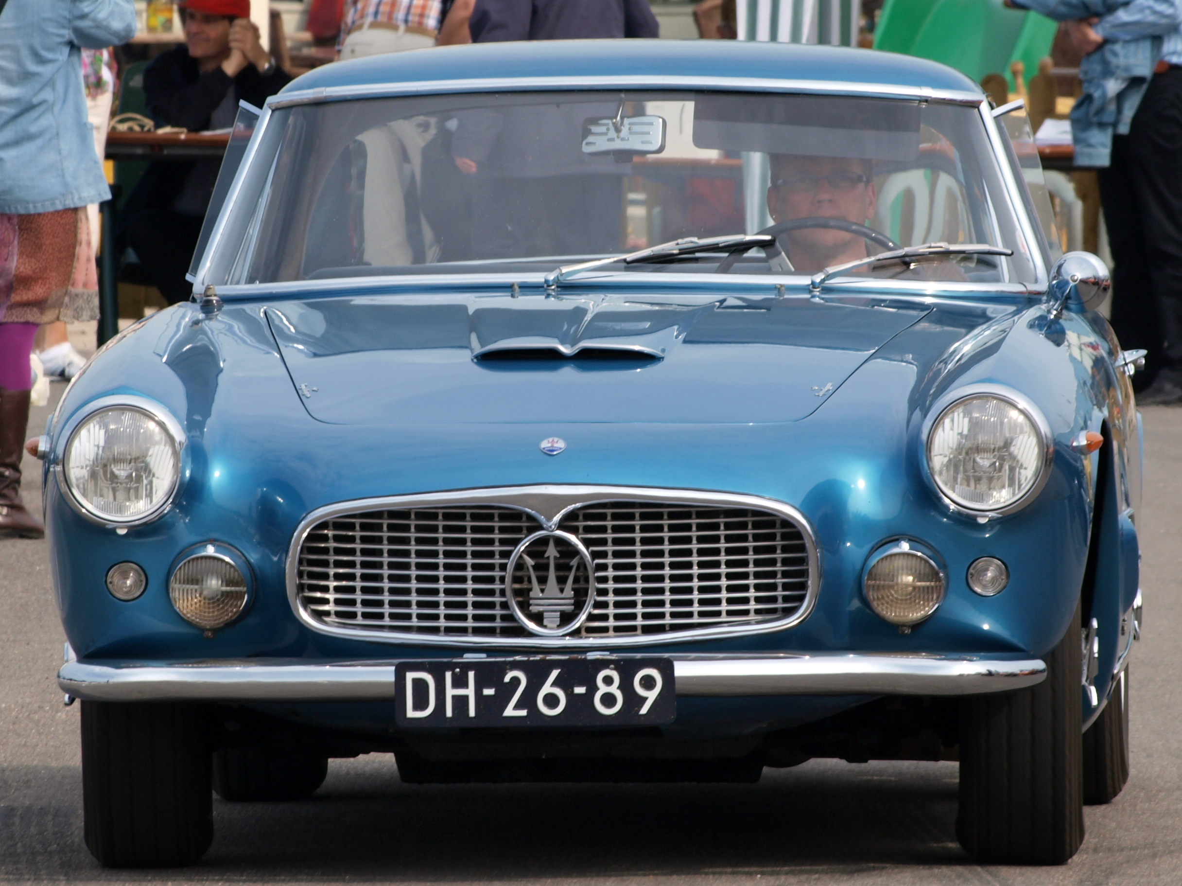 Cars and motorcycles photographed at the Voorschotense Oldtimer Vereniging Show, Valkenburgse meer, The Netherlands. OLYMPUS DIGITAL CAMERA